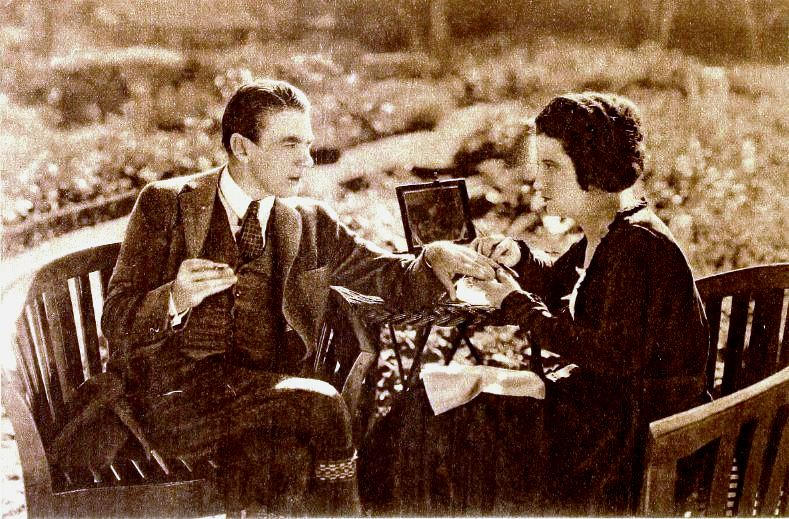 Still from the American silent film The Gay Lord Quex (1919) with Tom Moore and Hazel Daly, page 35 of the December 1919 Shadowland. "Lord Quex glanced at her curiously. 'Ah, my Lord,' whispered Sophie. 'Handsome men can't help being -- dangerous.'"